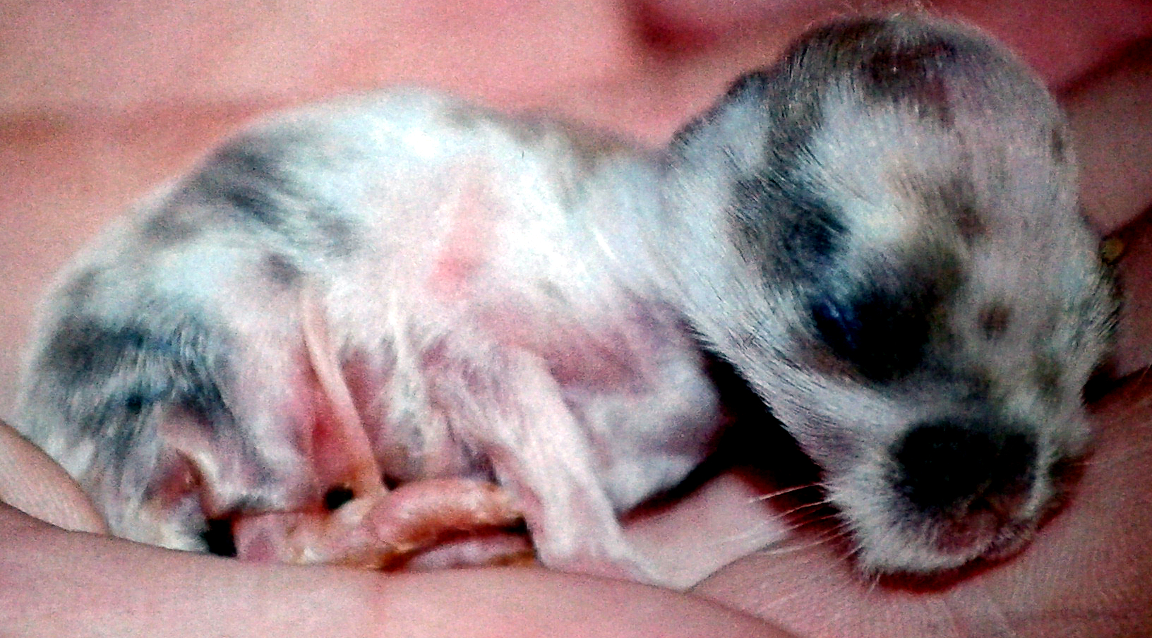 Homozygous dwarfism in a rabbit, leading to death shortly after birth (lethal gene). Can be expected to occur in 25% of offspring when breeding two dwarf rabbits together.